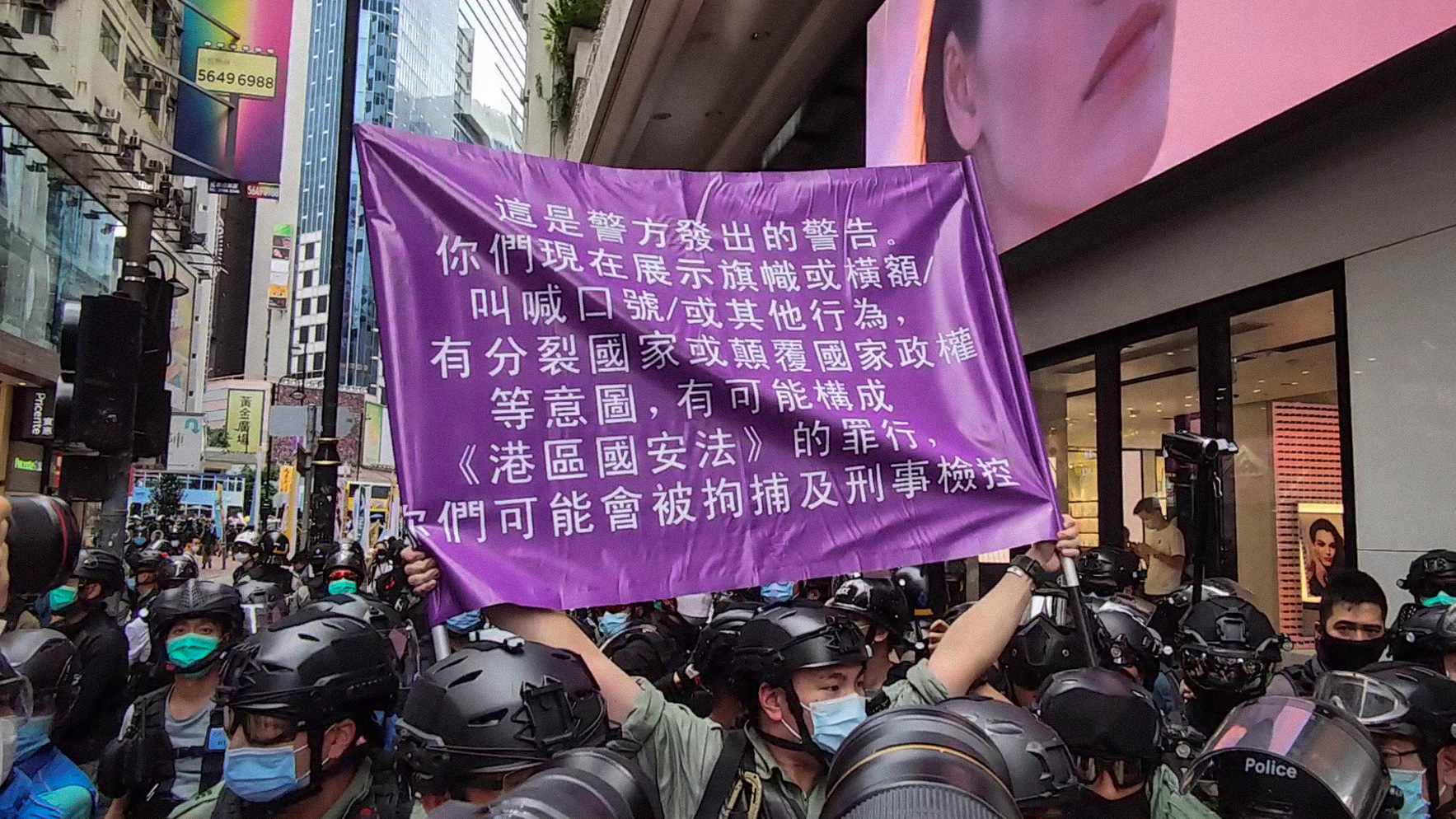 nationalsecuritylaw